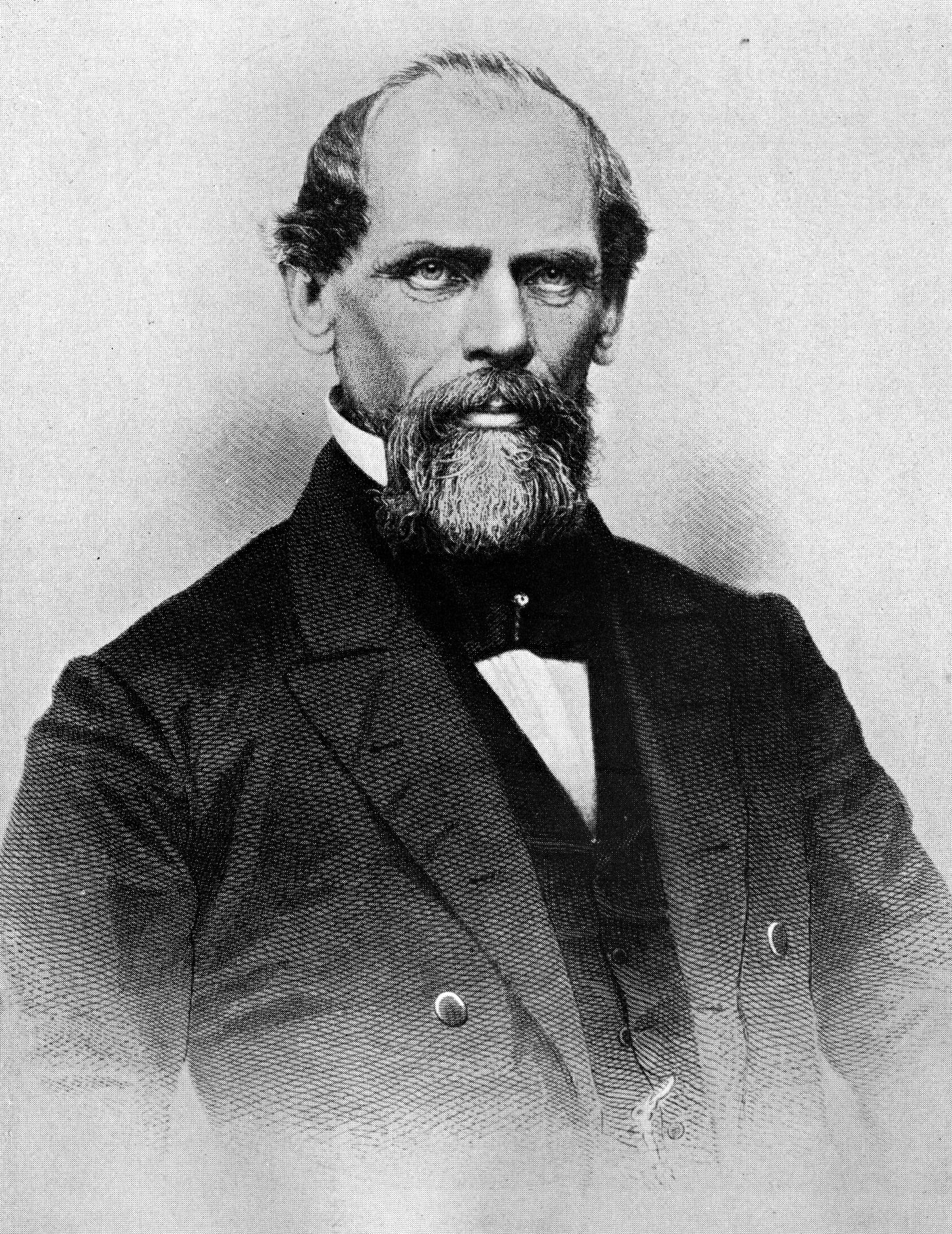 John August Roebling (1804-1854); 125:100 cm